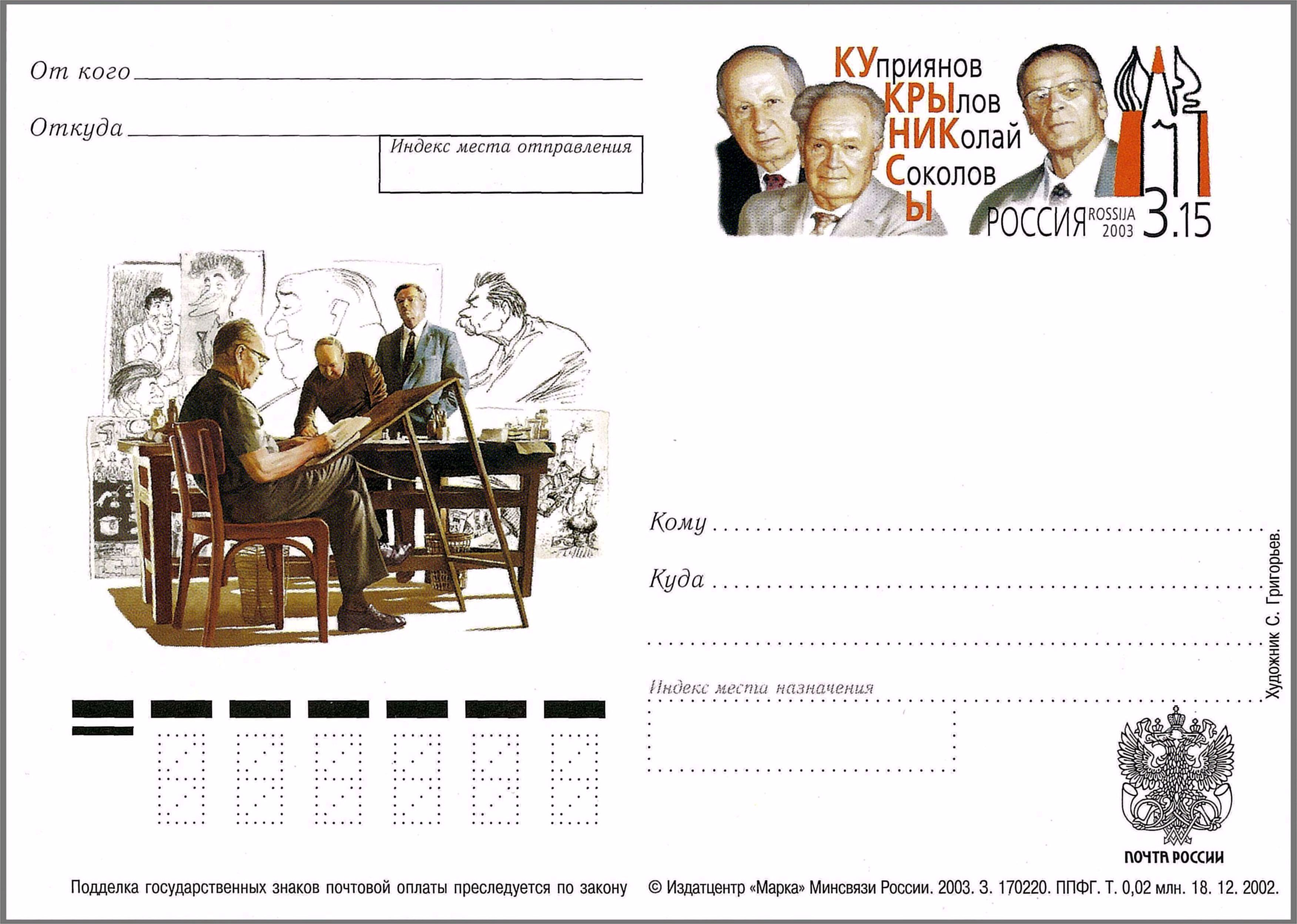 Kukryniksy: Kupriyanov, Krylov and Nikolay Sokolov. The postal card with imprinted commemorative stamp, Russia, 2003, Catalogue of PTC Marka # 135. The commemorative stamp (3.15 rubles): portraits of Kukryniksy. The illustration: Kukryniksy in their stidio.